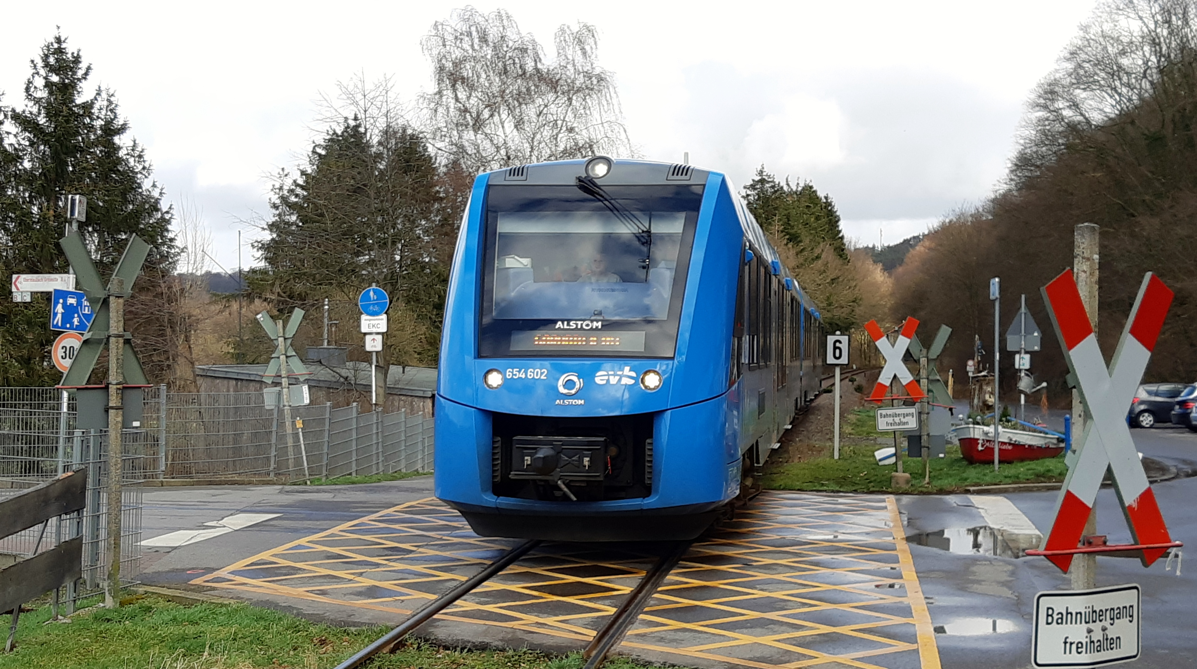 Alstom Coradia iLint, class 654, in Obermaubach